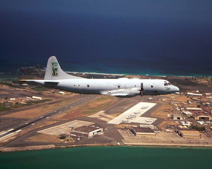 Repository: San Diego Air and Space Museum Archive